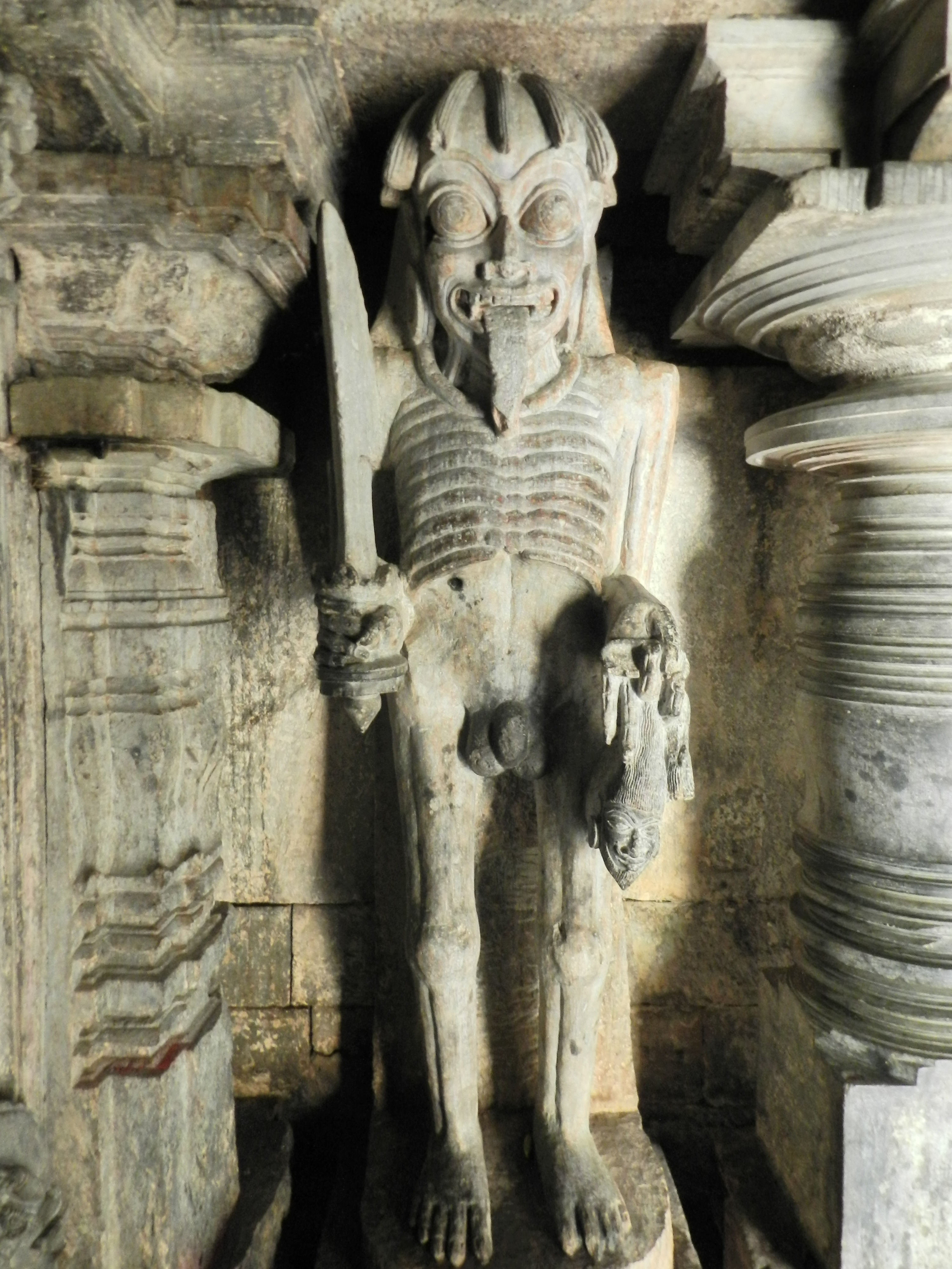 Sculpture of large demonic living corpses called 'betala' located in Lakshimi Devi temple is Doddagaddavalli, a village in Hassan District, Karnataka, India